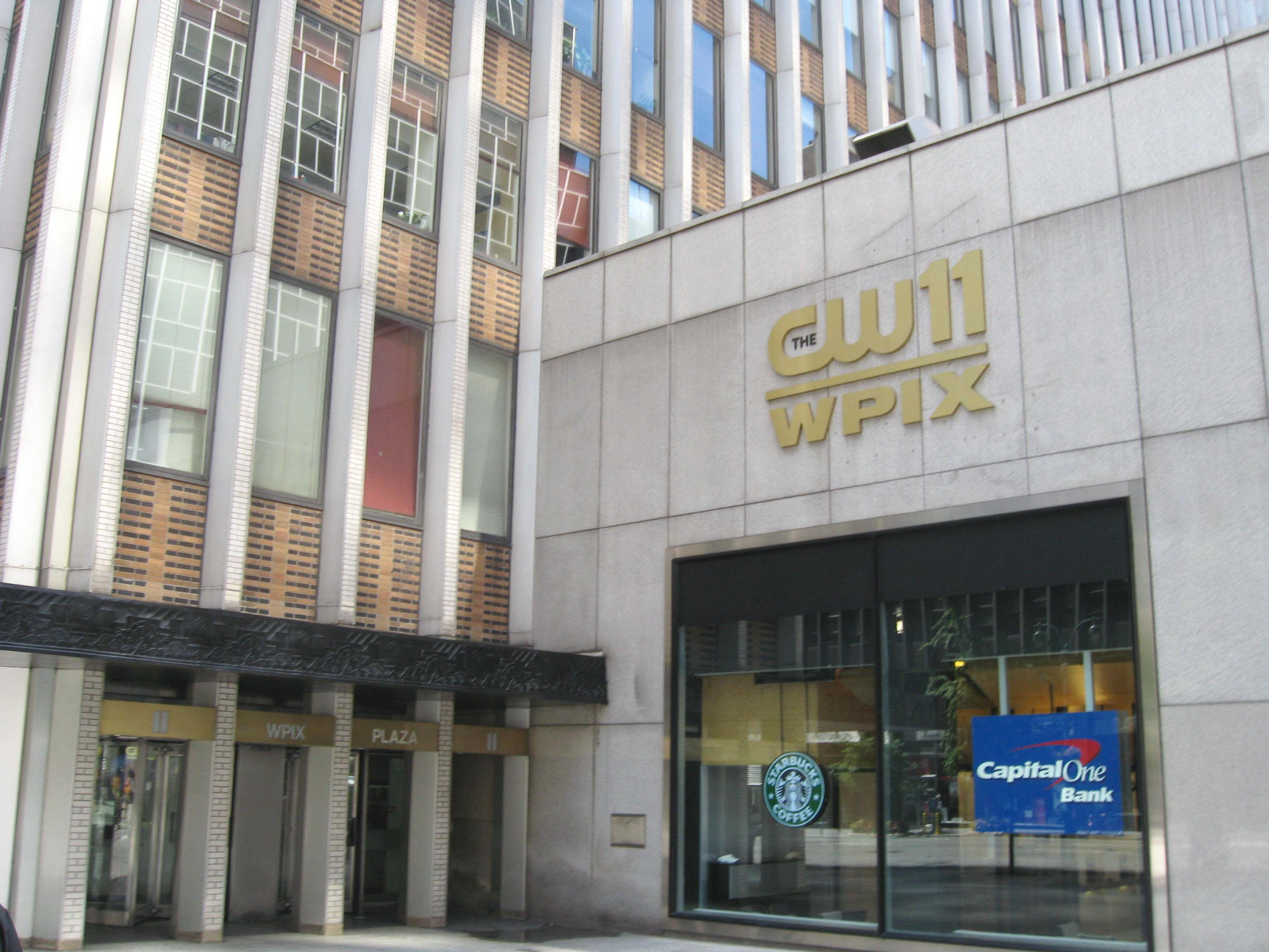 Looking west from Second Avenue across 42nd Street at WPIX Plaza on a sunny afternoon.